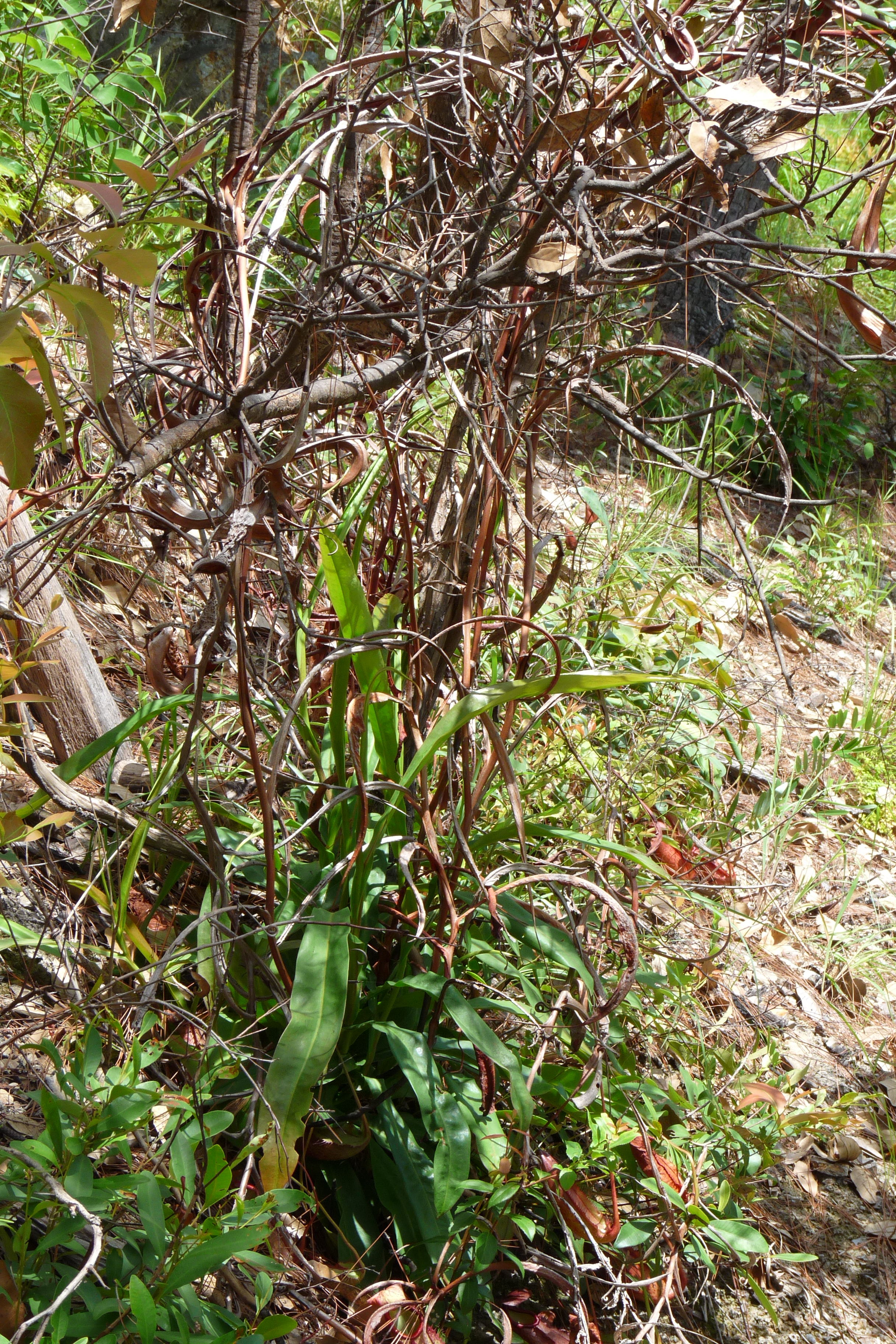 Nepenthes holdenii dead vines (remnants of the dry season) and new shoots, taken during the August 2009 wet season